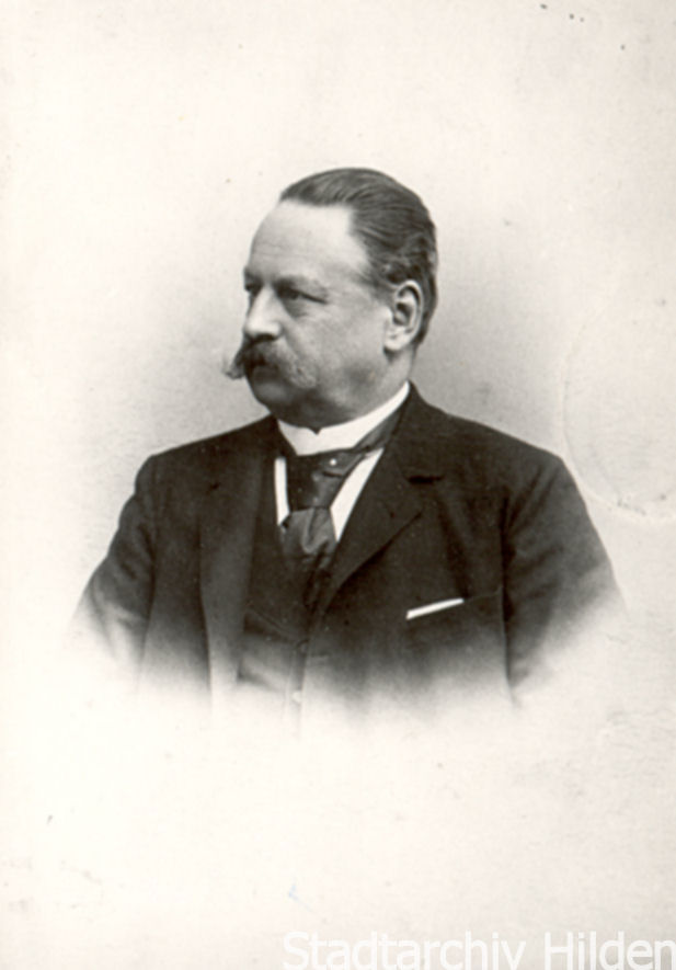 Portrait of Ernst Cramer (1833-1902), chairman of the supervisory board of Gesellschaft für Baumwoll-Industrie